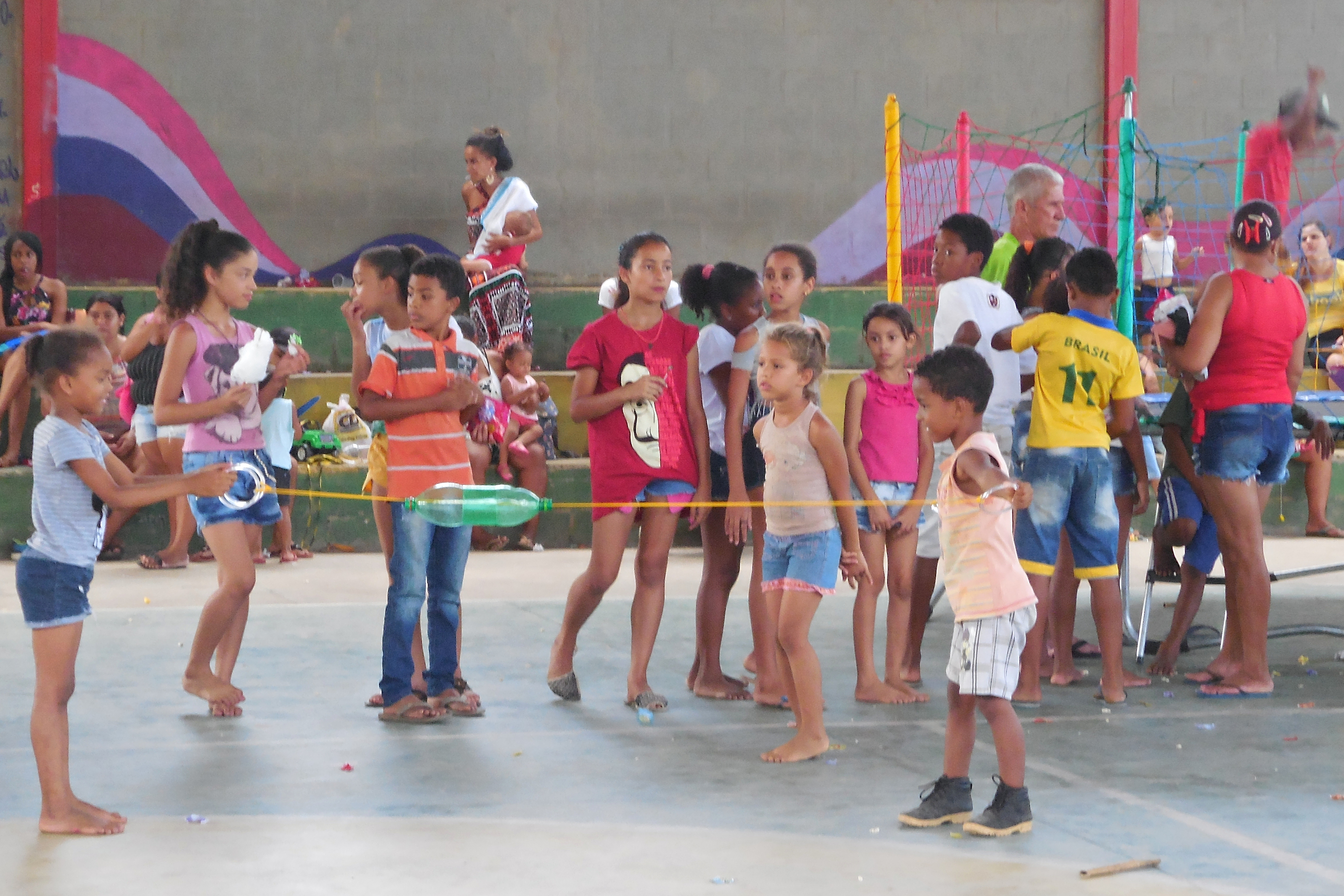 Children playing during the Children's Day celebrations of the Aparecida do Norte neighborhood in 2018, in Coronel Fabriciano, Minas Gerais, Brazil.